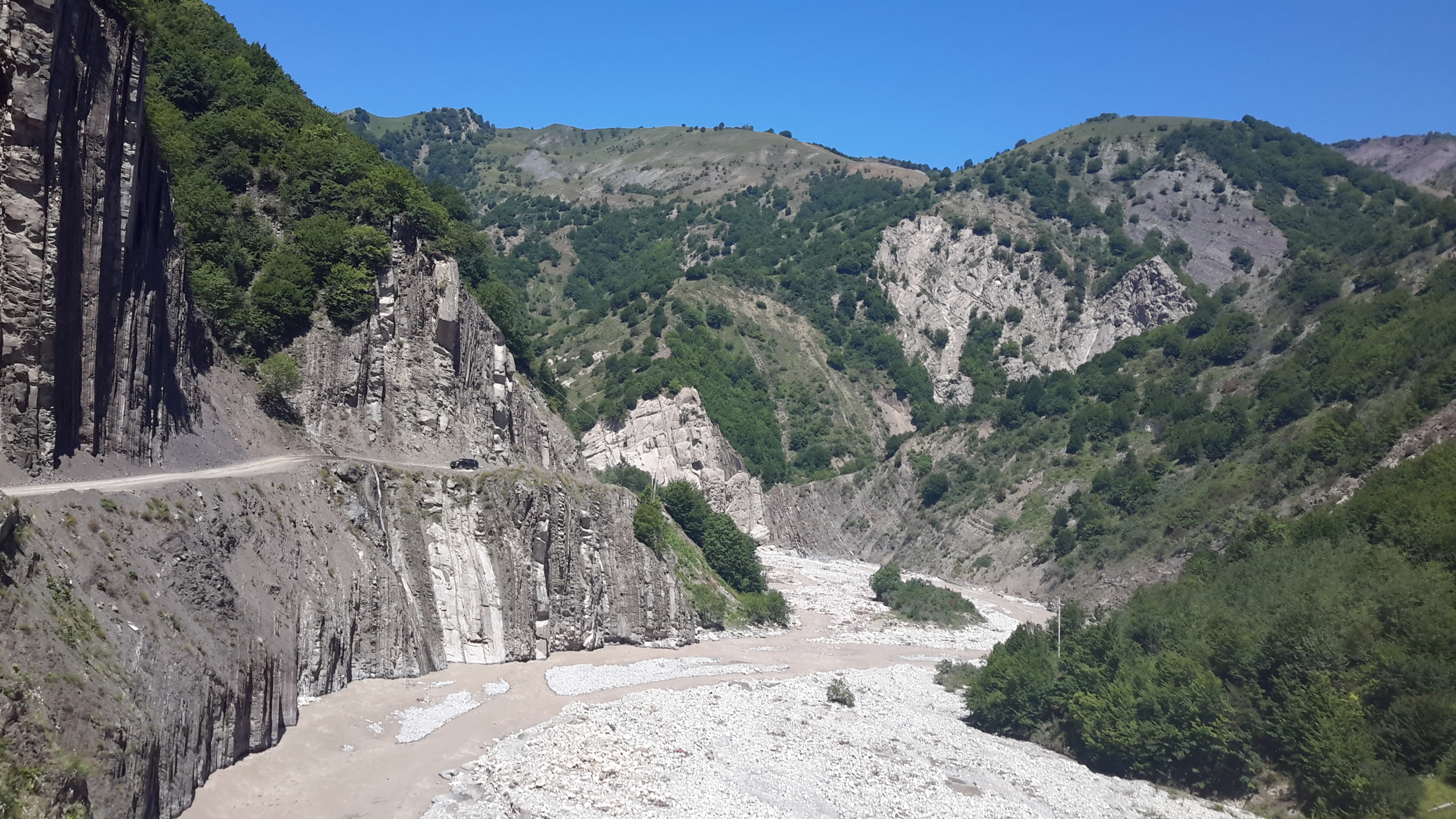 This road is the one and only way to get to the town. Town Lahij is famous for its artwork. Though the road is very dangerous and there is a possibility of large stone slabs falling down the road it is still known for one of the most touristic town in Republic.